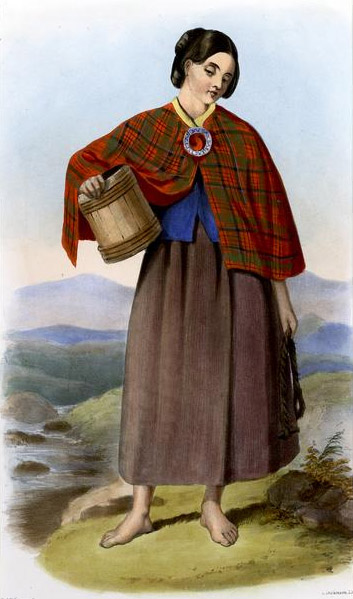 "Mac Nicol". A plate illustrated by R. R. McIan, from James Logan's The Clans of the Scottish Highlands, published in 1845.